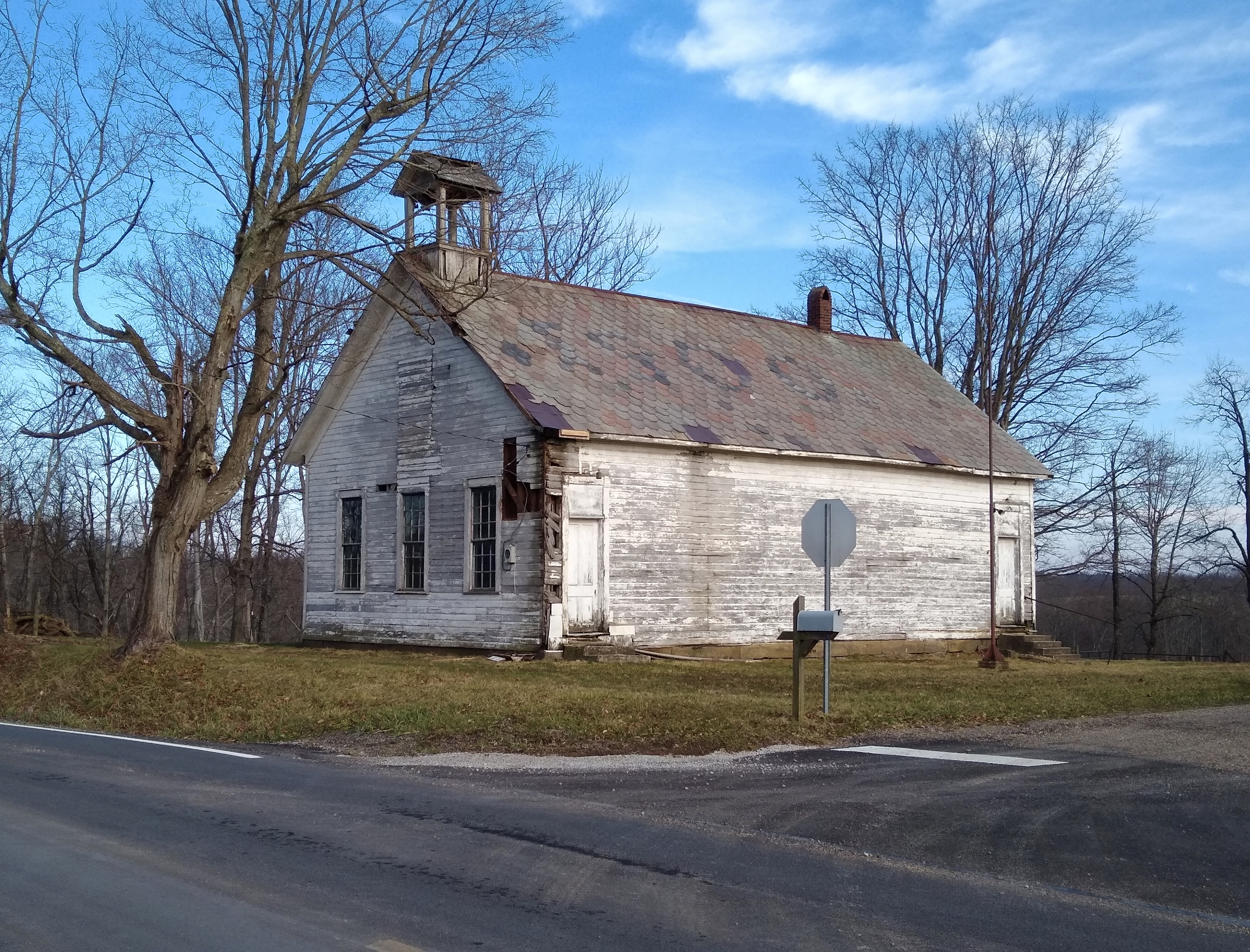 The old schoolhouse in Claysville, Ohio. National Register of Historic Places reference number 79001850. Taken 30 December 2018.